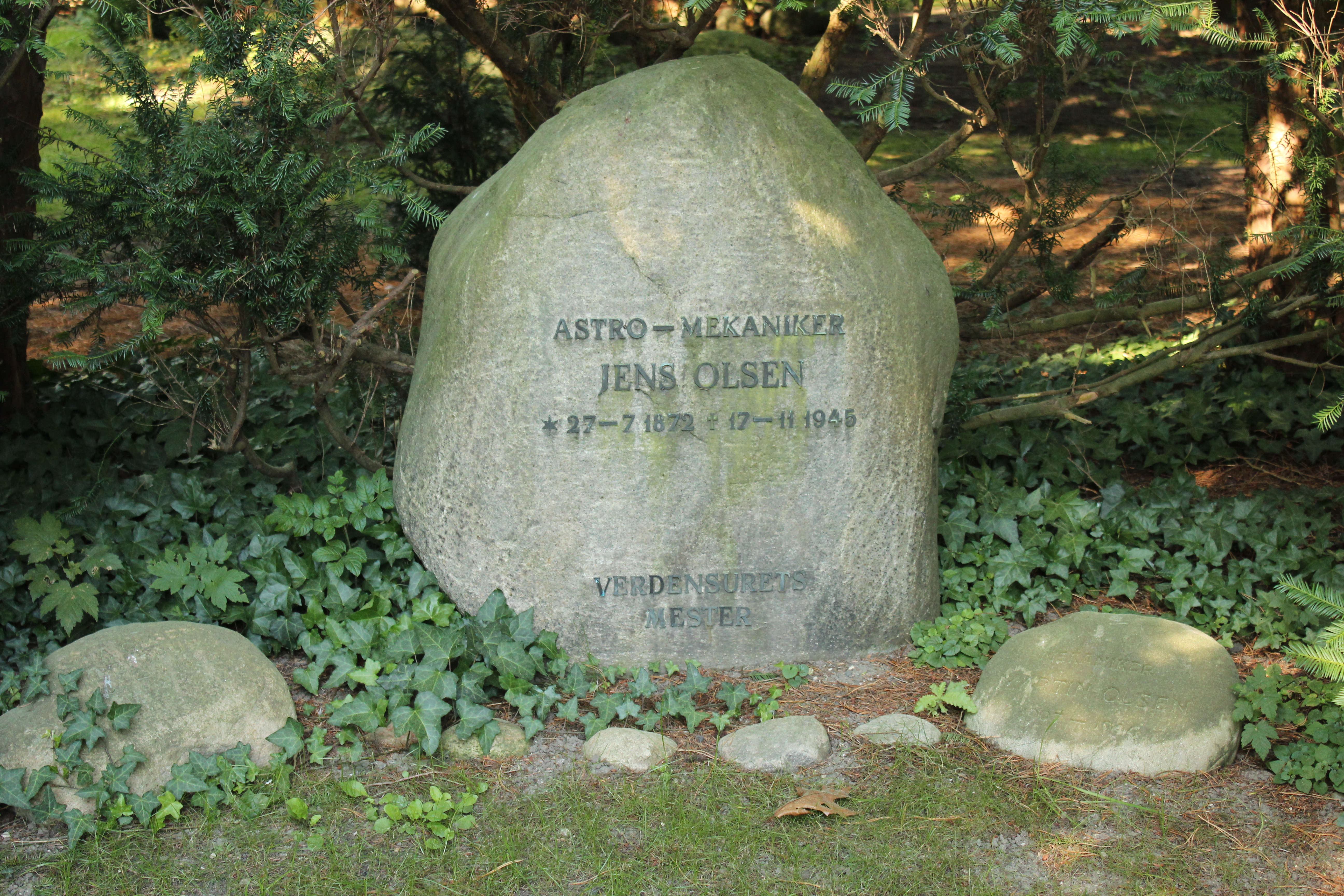 Grave of Jens Olsen, Danish clockmaker.